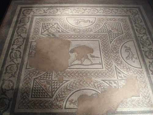 Roman Mosaic found at Colchester (England). Known as the Middleborough mosaic, it was found in 1979. It once graced a wealthy Roman house that lay just outside the Roman town walls of Colchester. It had a square central panel containing a scene representing fighting cupids.